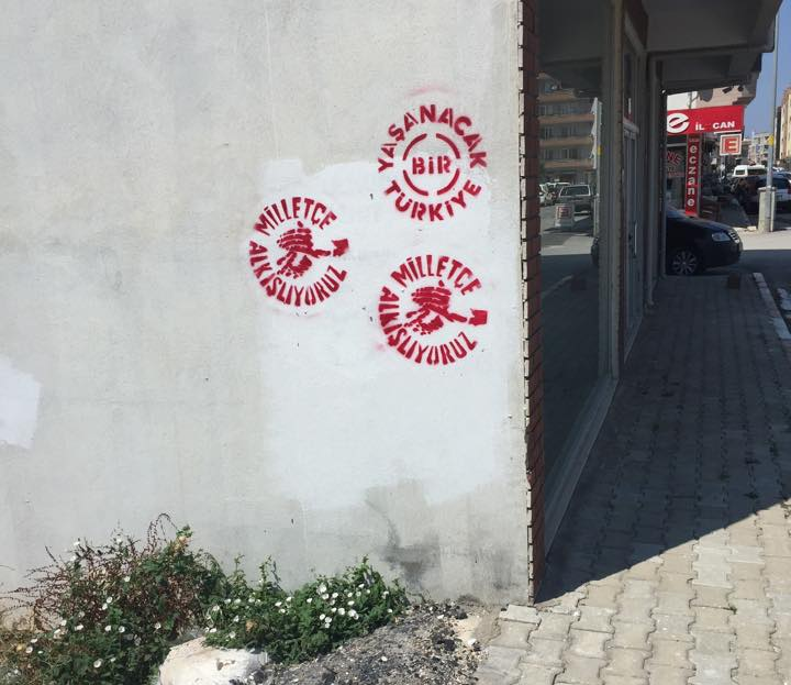 Street art depicting the Republican People's Party (CHP)'s two main campaign slogans in Seferihisar, Izmir.